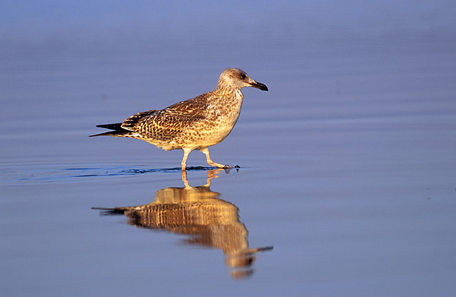 Larus cachinnans, young